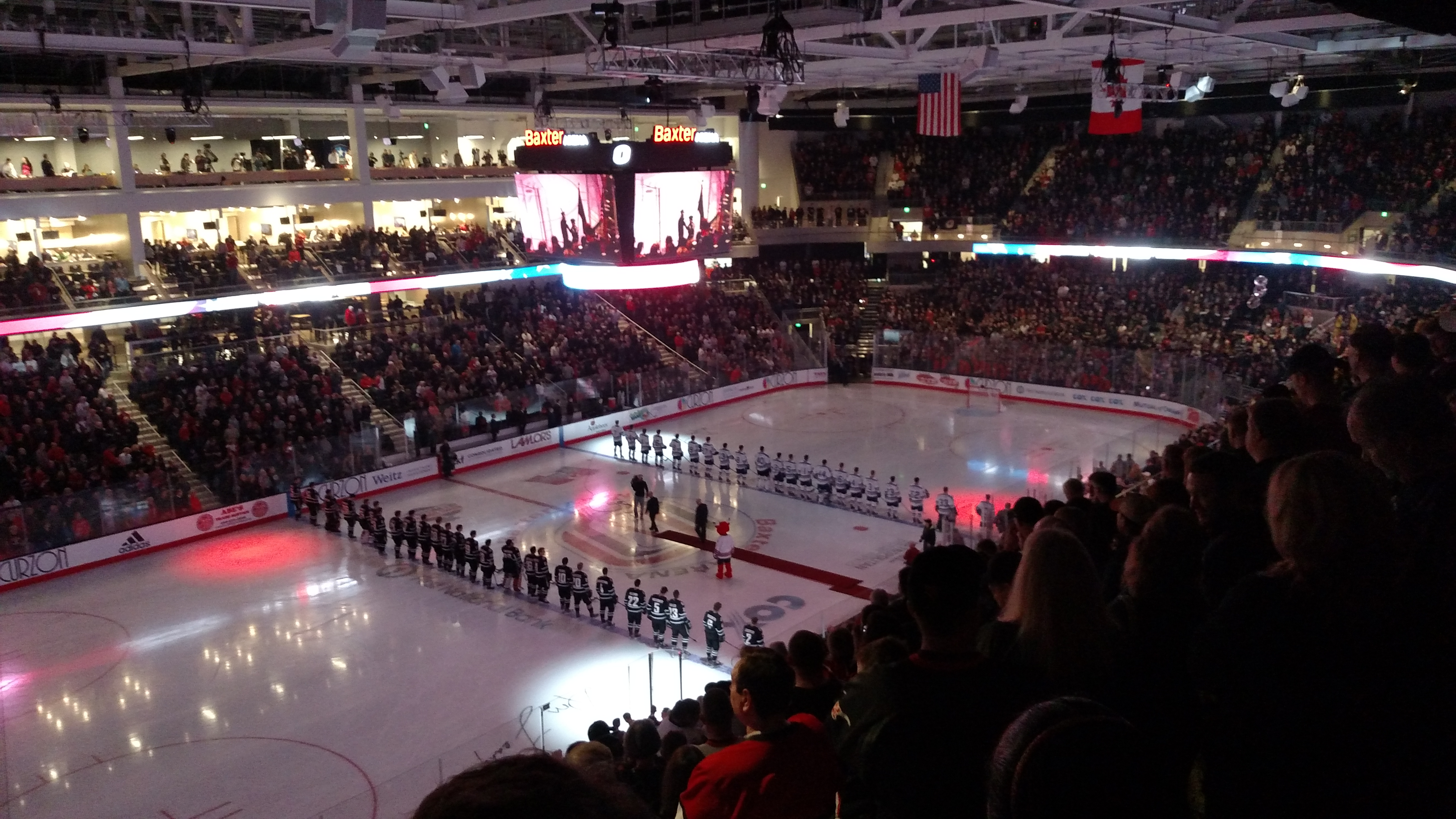 Baxter Arena opening night just minutes before puck drop.